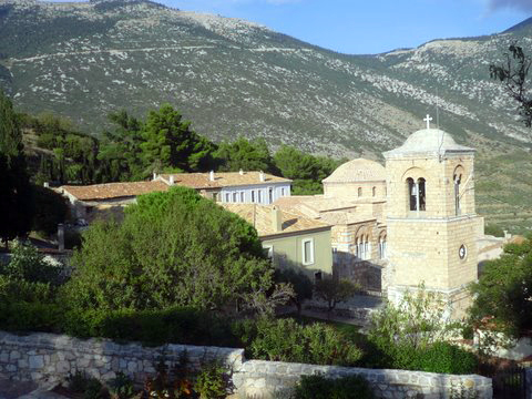 Monastery of Hosios Loukas in Boetia, Greece